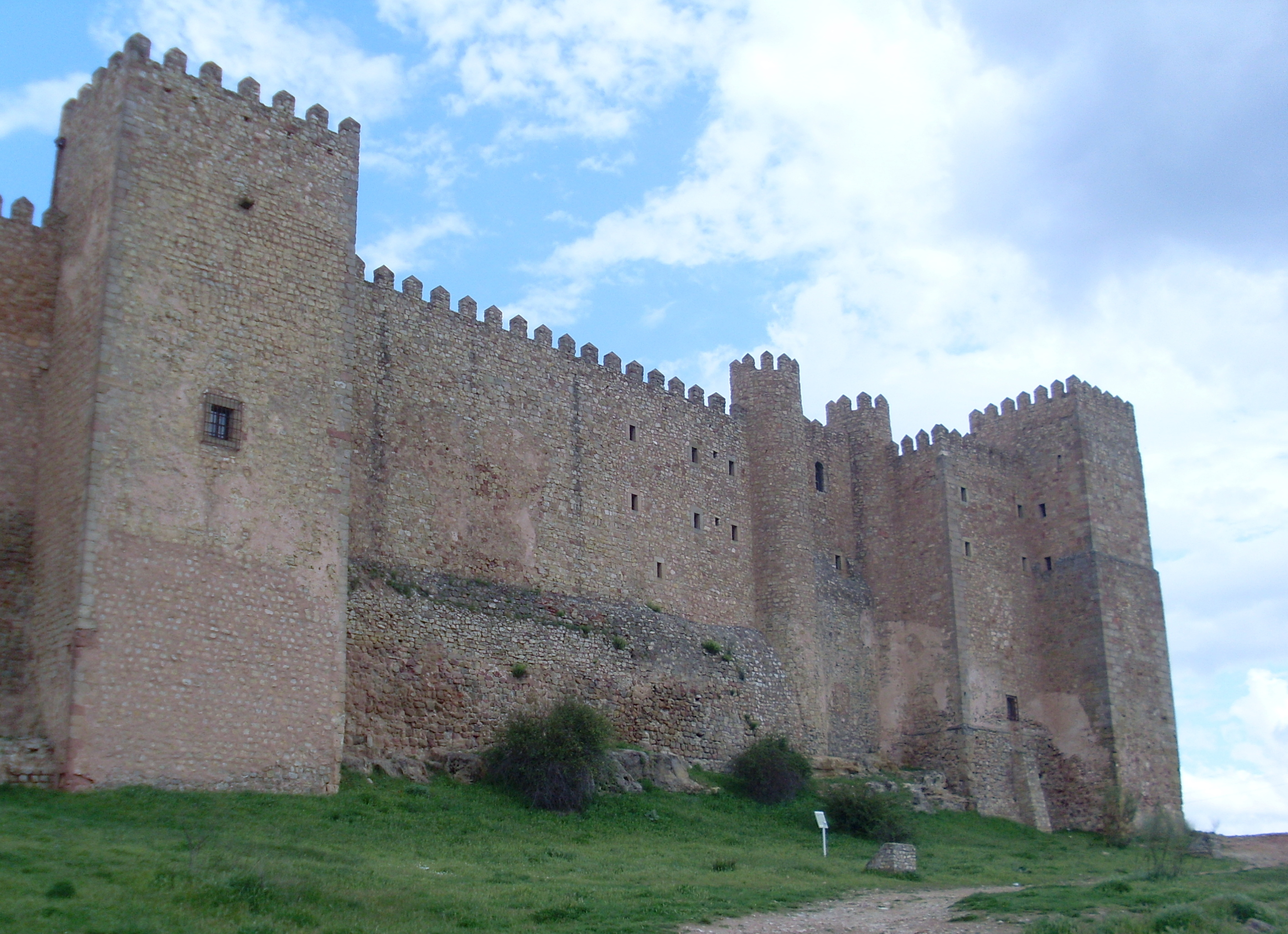 Castle of Siguenza. Sigüenza, Guadalajara -Spain